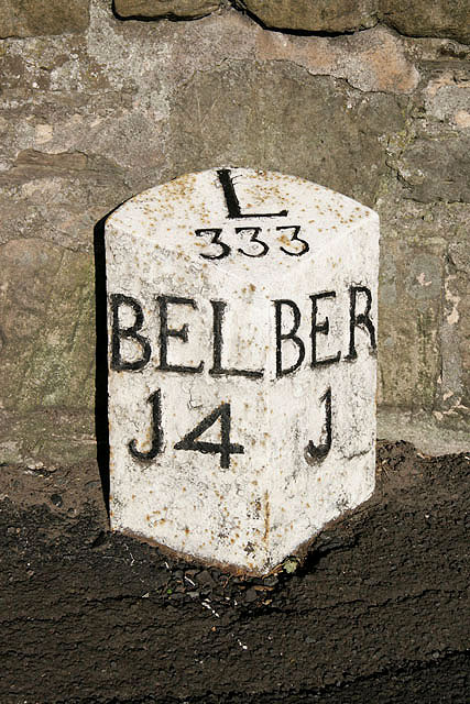 A milestone at Berwick-upon-Tweed At Northumberland Road on the southern outskirts of the town, showing 333 miles to London, 14 miles to Belford and 1 mile to Berwick town centre.